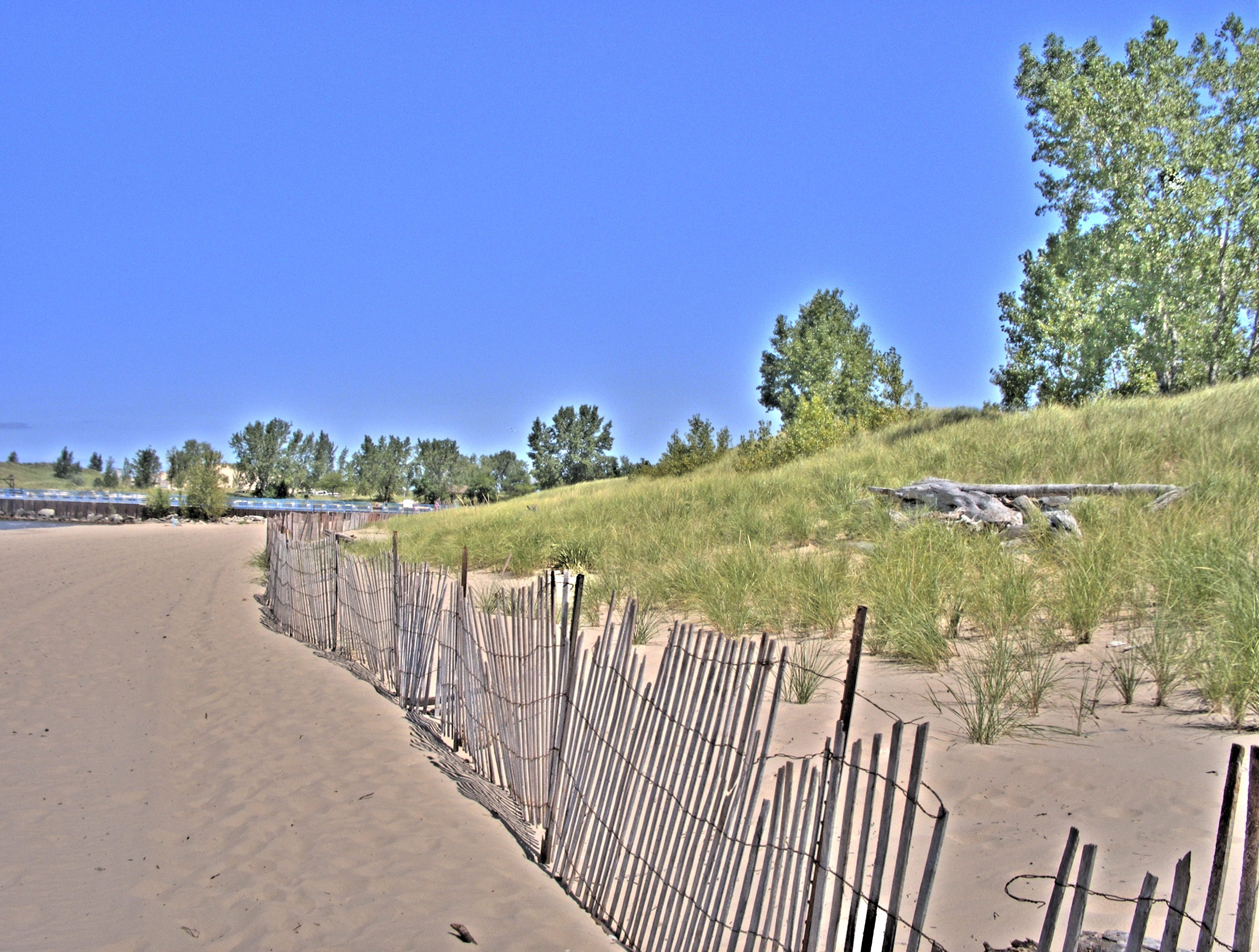 Silver Beach, St. Joseph, Michigan Qtpfsgui 1.9.3 tonemapping parameters: Operator: Fattal Parameters: Alpha: 0.1 Beta: 0.8 Color Saturation: 0.5 Noise Reduction: 1 ------ PreGamma: 1